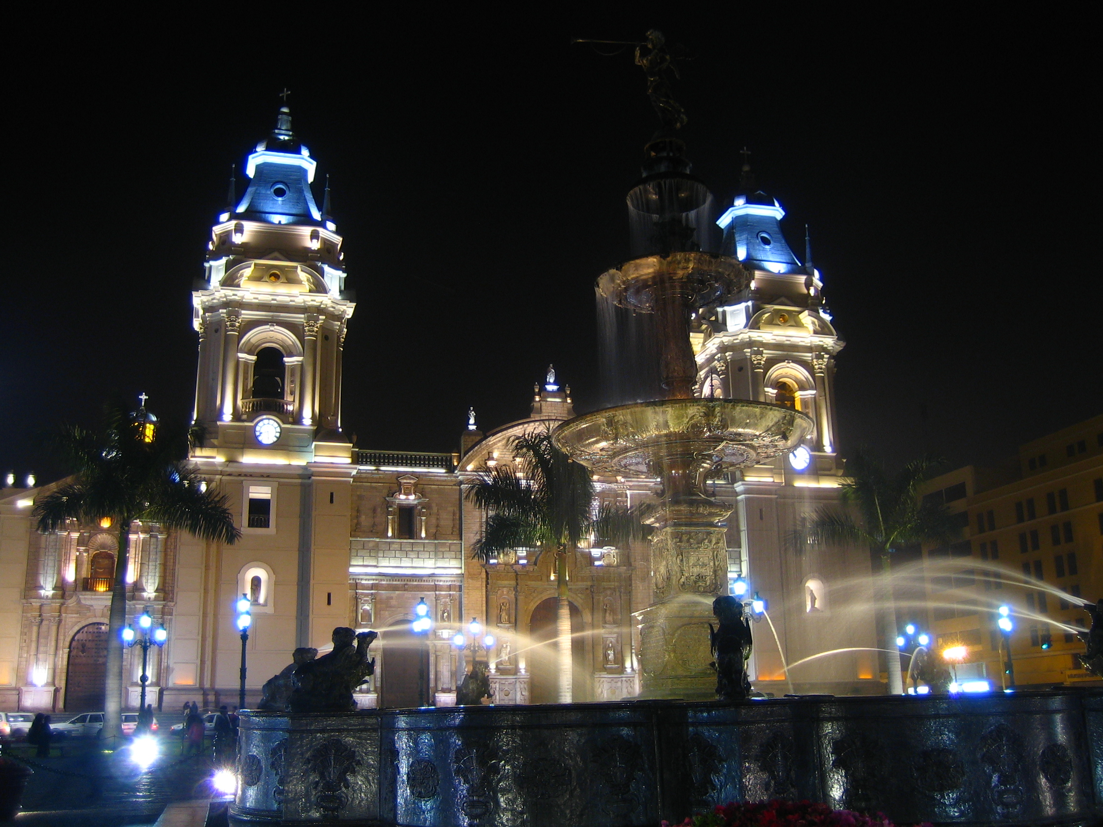 Lima Cathedral